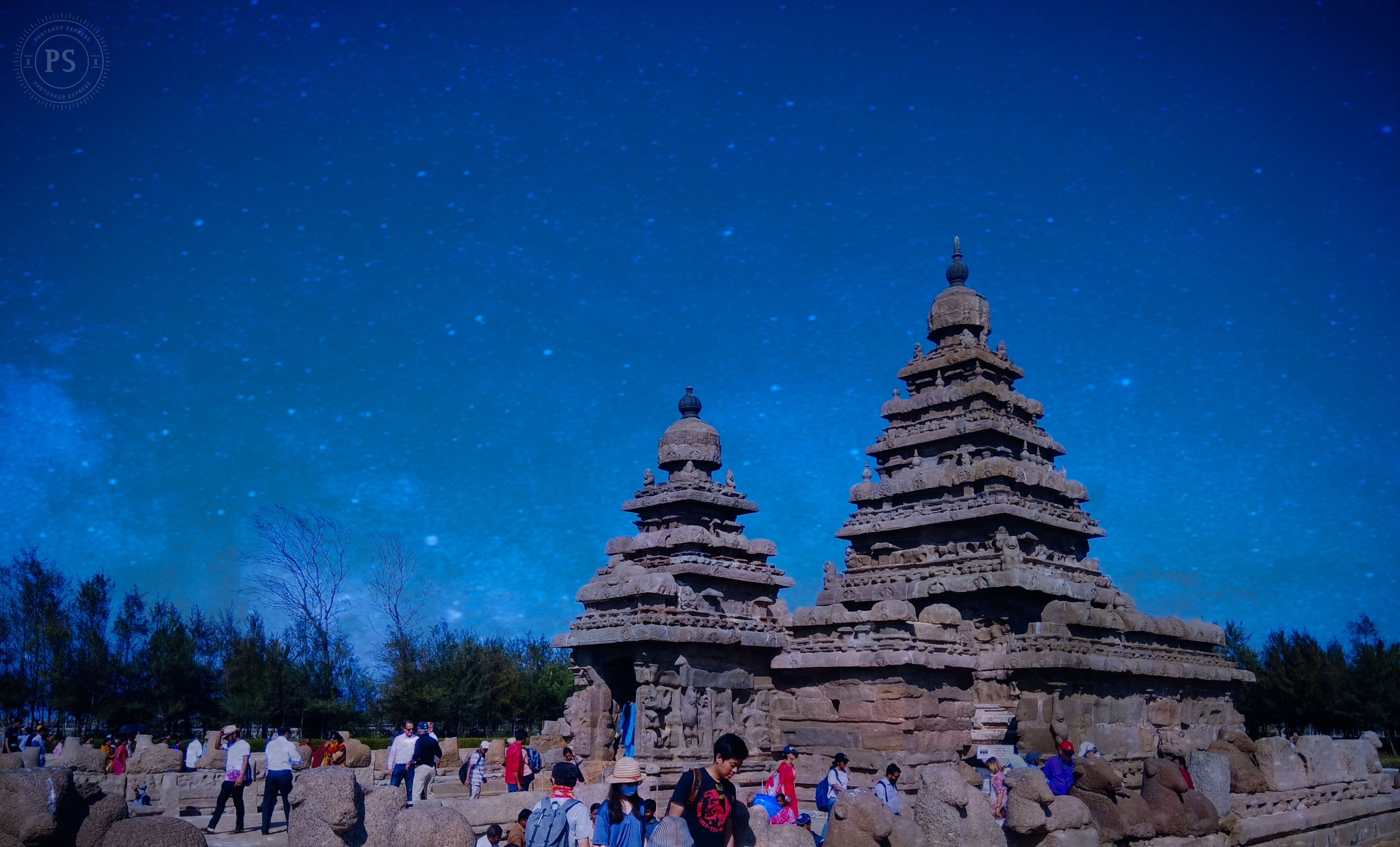 The Shore Temple is the icon of the ancient monuments of Mahabalipuram. The temple gets its name from its location on the Coromandel shore overseeing the Bay of Bengal. The sculptural excellence symbolizes the heights of Pallava architecture. The Dravidian style of architecture dates back to the 7-8th century. It was built under the rule of King Narsimha Varma. The visual delight of finest architecture, the sculptures and intricate and full of vivacity. The granite rock cut carvings are proof of the sheer brilliance of the artisans who have created this magnificent structure. The structural designs can be only called ‘poetry in stone’. It has been an UNESCO World Heritage Site since 1984. Erected on a 50 feet square platform, the temple is a pyramidal structure rising to the heights of 60 feet. The characteristic specimen of Dravidian temple architecture, Shore Temple is one of the oldest structural stone temples of South India. The temple basks in the glow of the first rays of the rising sun and spotlights the waters after sunset. The Shore Temple has three shrines, devoted to Lord Shiva and Lord Vishnu. The main temple is a five-storeyed structure sculpted out of granite dedicated to Lord Shiva. The pyramidal structure is 60 feet (18 m) high and sits on a 50 feet (15 m) square platform. In the Garbha Griha, sanctum sanctorum, a Shivalinga is worshipped. At the rear end, there are two shrines facing each other. One shrine is dedicated to Ksatriyasimnesvara and the other to Lord Vishnu. In the shrine, Lord Vishnu is seen reclining on the 'Seshanag', which is a symbol of consciousness in Hinduism.